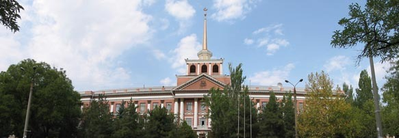 Mykolaiv admiralty